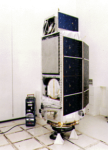 HEAO-3 satellite in a clean room.